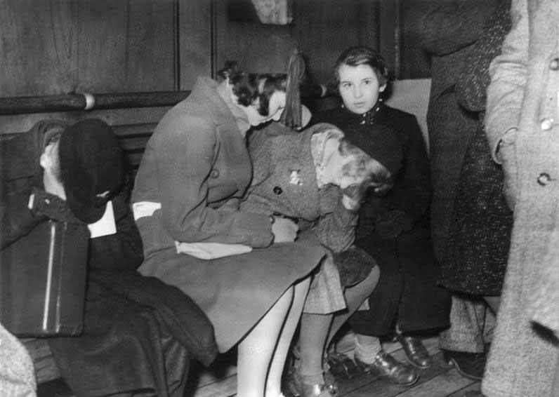 First Batch of Refugee children arrive in England from Germany. More than 200 boys and girls between 12 and 17 years aof age, the first batch of young Jewish refugees from Germany for whom new homes have been promised in Britain, arrived at Harwich from the Hook of Holland an then went to a holiday camp at Dovercourt, near Harwich, where they are to be accomodated for two or three weeks. The children, who are to be supported by voluntary contributions and not public funds, will be sheltered by British families, educated and taught trades and will then emigrate to British possessions. The party of children is drawn mainly from Berlin and Hamburg. Hospitality for 5.000 children refugees is planned. Photo shows .- Young refugees tired out on their arrival at Harwich (Essex) in the early morning. AB December 2nd 1938 PN.r. C. Planet News Ltd., London ADN-ZB/Archiv Großbritannien 1938: Jüdische deutsche Flüchtlingskinder im Alter von 12 bis 17 Jahren sind, aus Hoek van Holland kommend, am frühen Morgen in Harwich (Essex) eingetroffen. Für zwei bis drei Wochen werden 5000 Jungen und Mädchen, die vorwiegend aus Berlin und Hamburg geflohen waren, im Ferienlager von Dovercourt, in der Nähe Harwichs, eine Unterkunft finden.